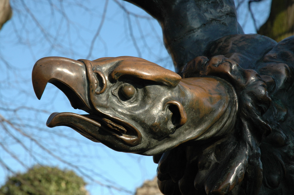 Sculpture of Turul (a mythological bird of Hungarians) in the Castle of Uzhhorod (Transcarpathian region, Ukraine).